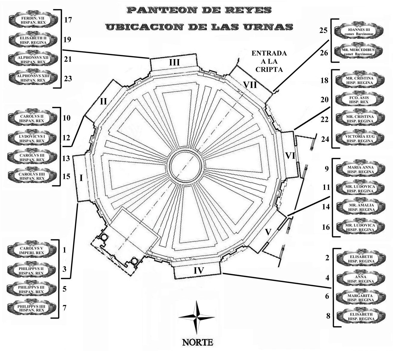 Location of the 26 tombs in chronological order from top to bottom in the Pantheon of Kings de El Escorial